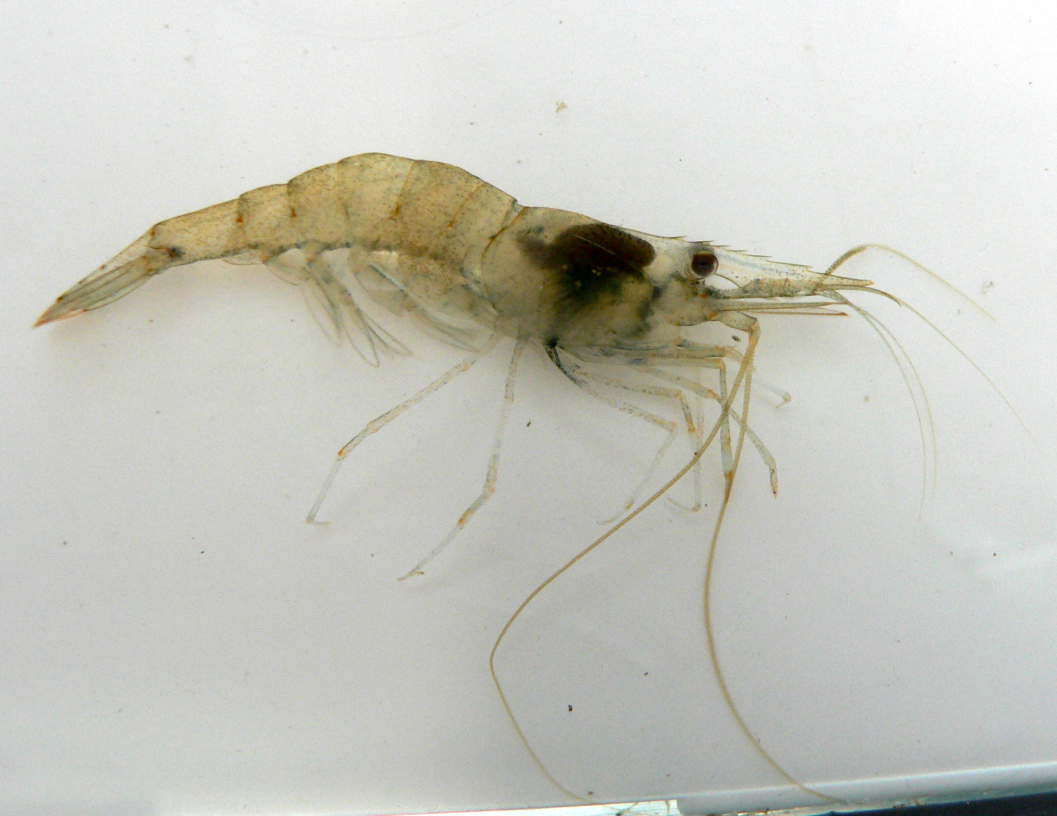 Palaemonetes varians(Leach, 1814) -- atlantic ditch shrimp, Brakwatersteurgarnaal from Hekslootpolder, Spaarnwoude